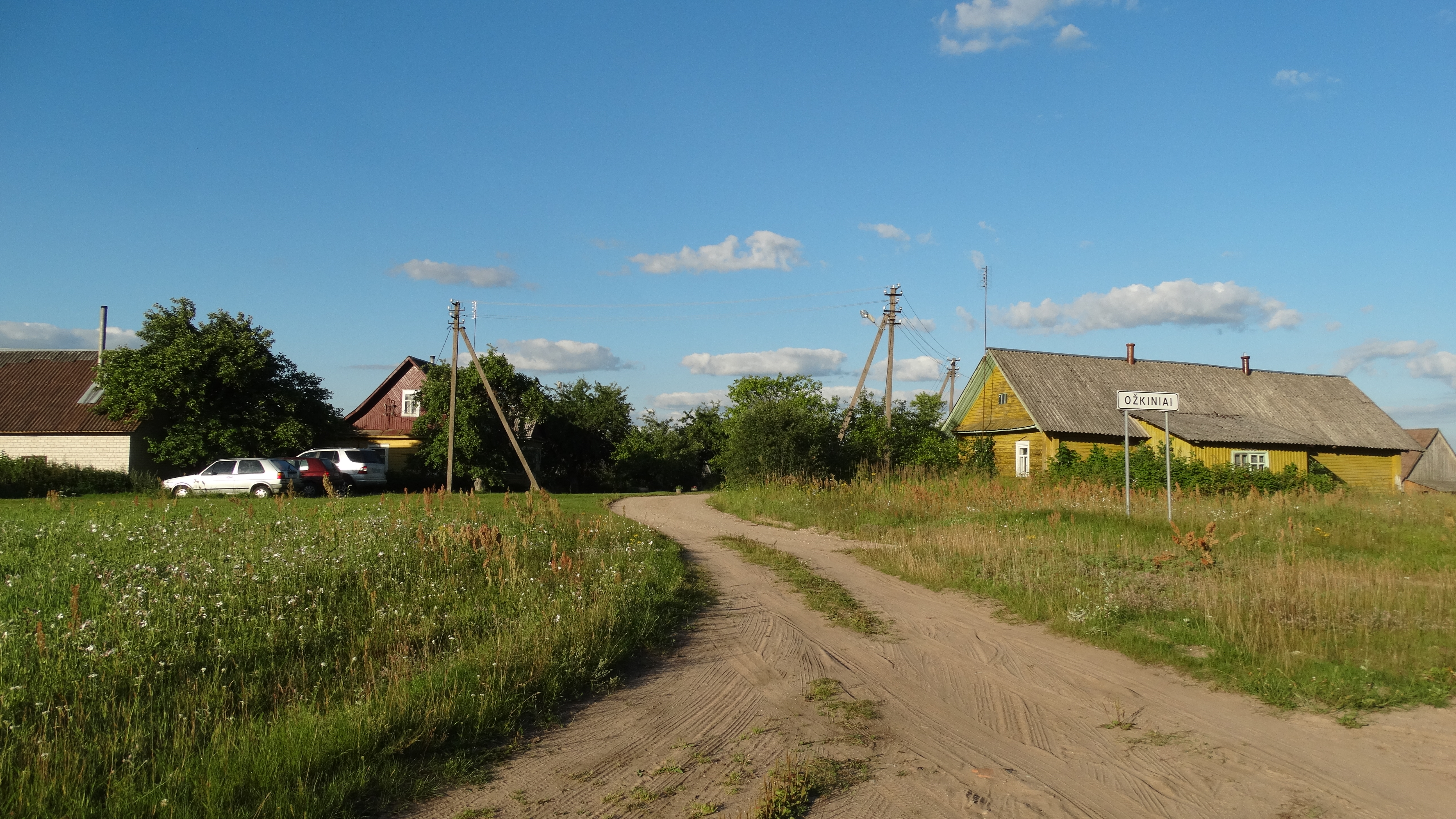 Ožkiniai, Švenčionys District, Lithuania